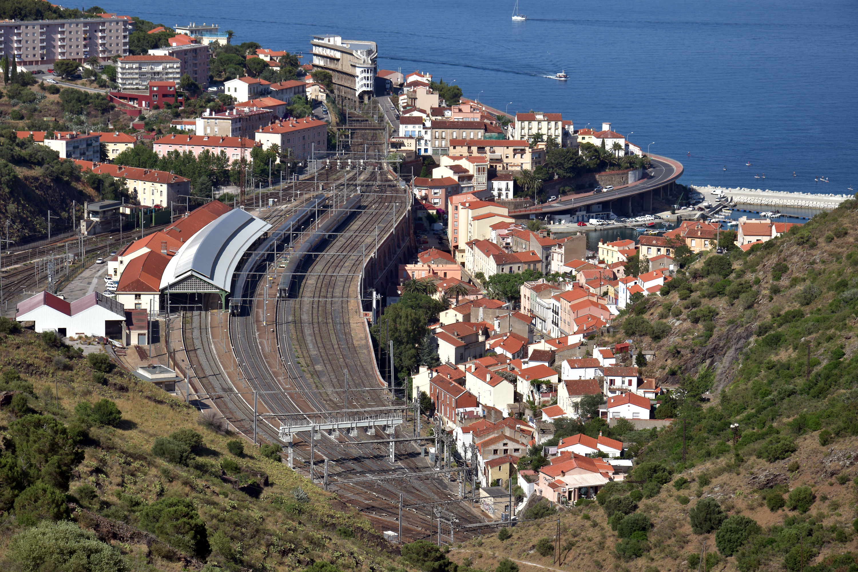 Cerbère